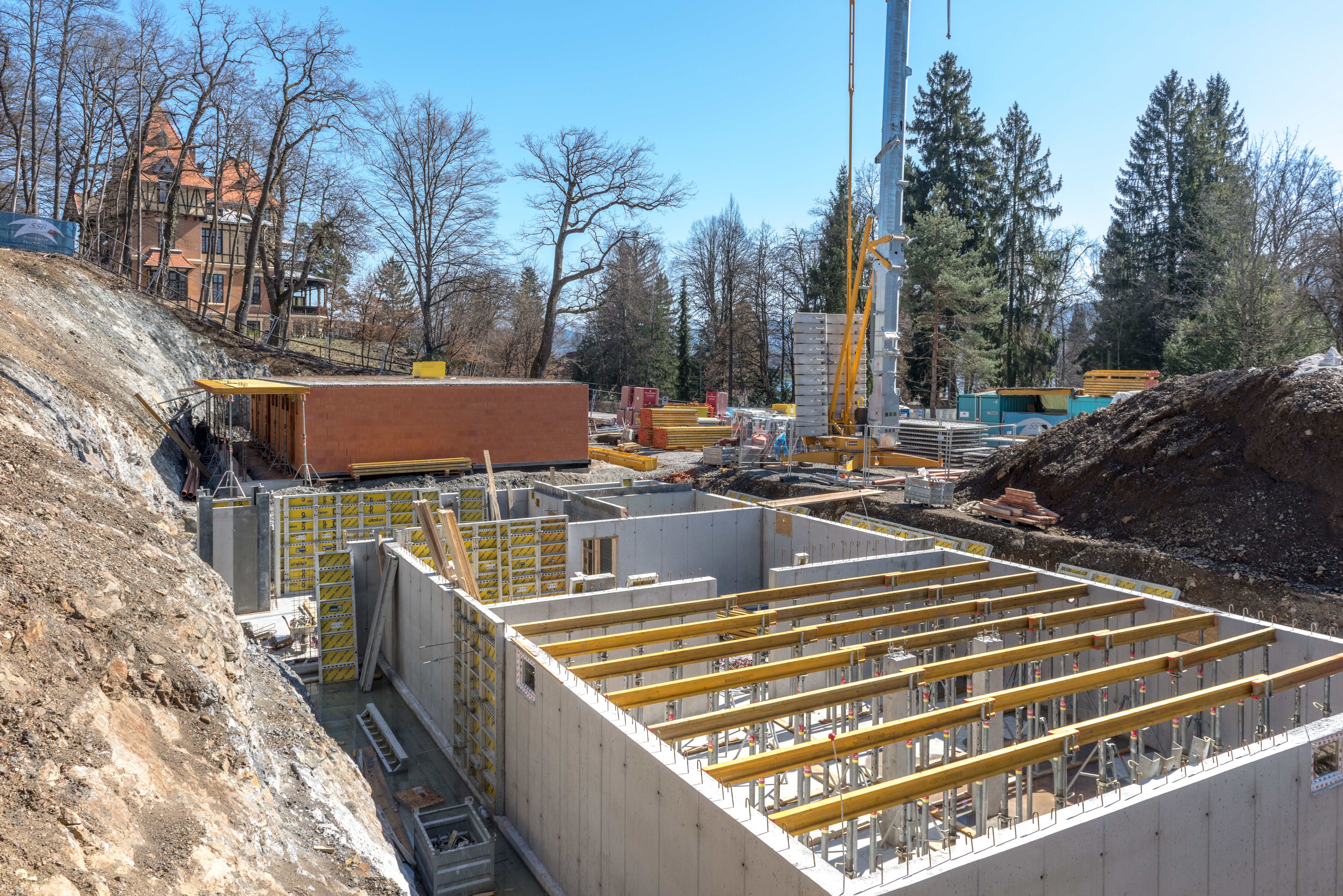 Construction of new apartment buildings on Hauptstrasse #124, municipality Pörtschach am Wörther See, district Klagenfurt Land, Carinthia, Austria, EU